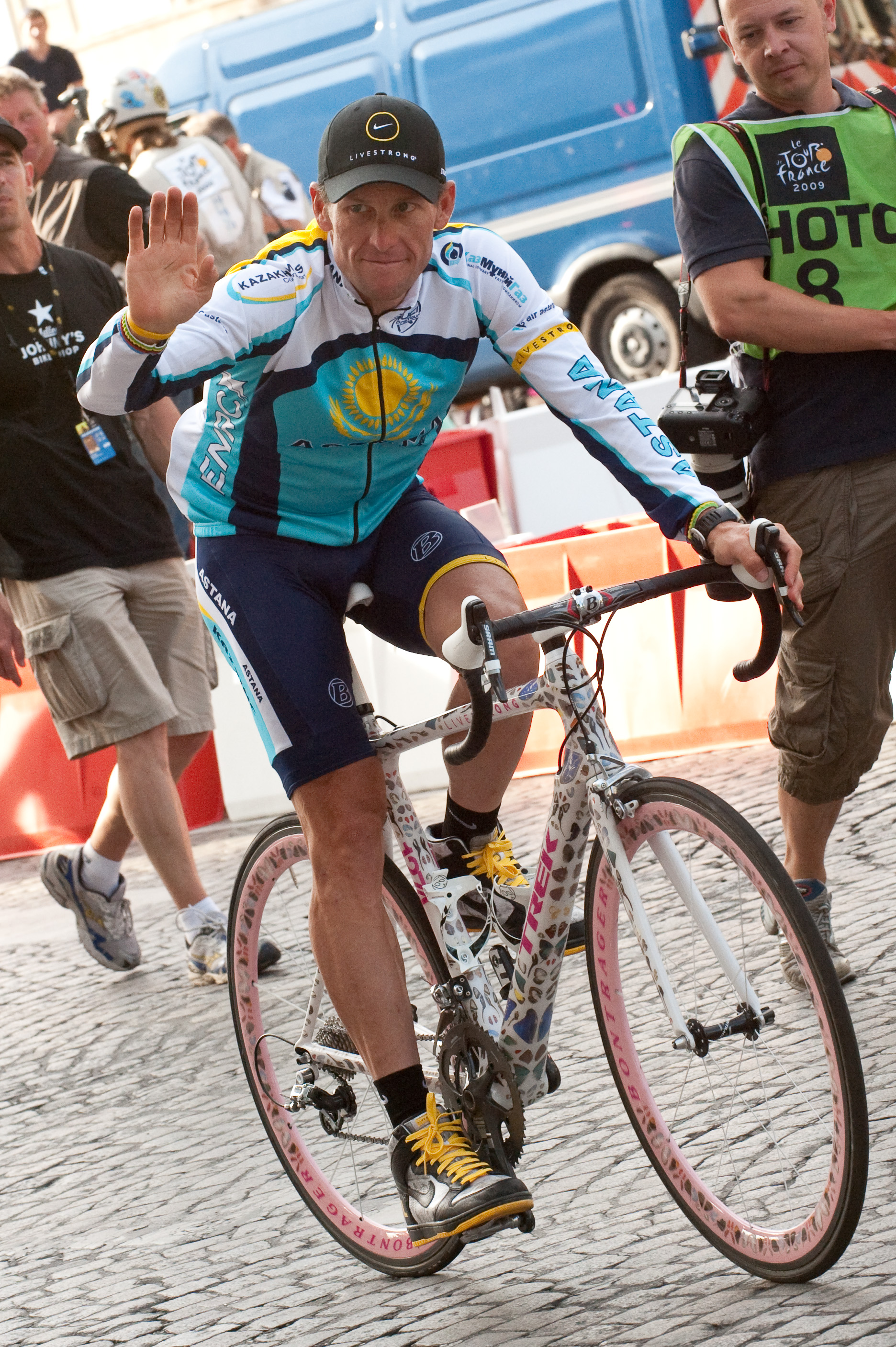 Lance Armstrong on his Damien Hirst bike in Paris, after Stage 21 of the 2009 Tour de France.